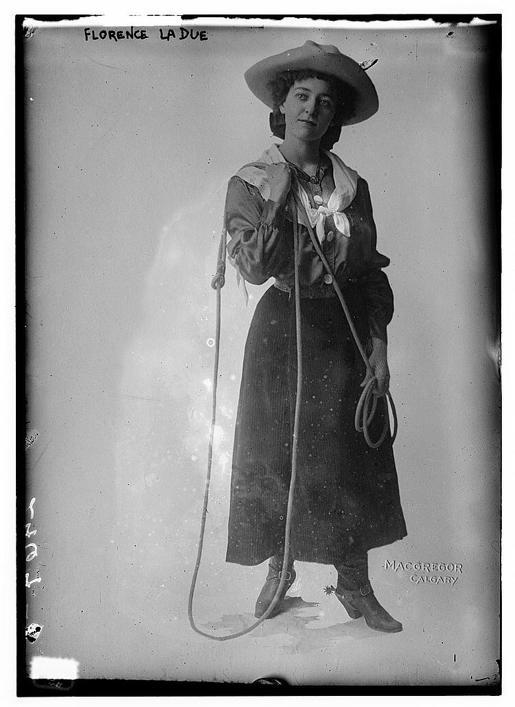 Bain News Service,, publisher. Florence LaDue [between 1910 and 1915] 1 negative : glass ; 5 x 7 in. or smaller. Notes: Title from unverified data provided by the Bain News Service on the negatives or caption cards. Forms part of: George Grantham Bain Collection (Library of Congress). Format: Glass negatives. Repository: Library of Congress, Prints and Photographs Division, Washington, D.C. 20540 USA, General information about the Bain Collection is available at Persistent URL: Call Number: LC-B2- 2464-4